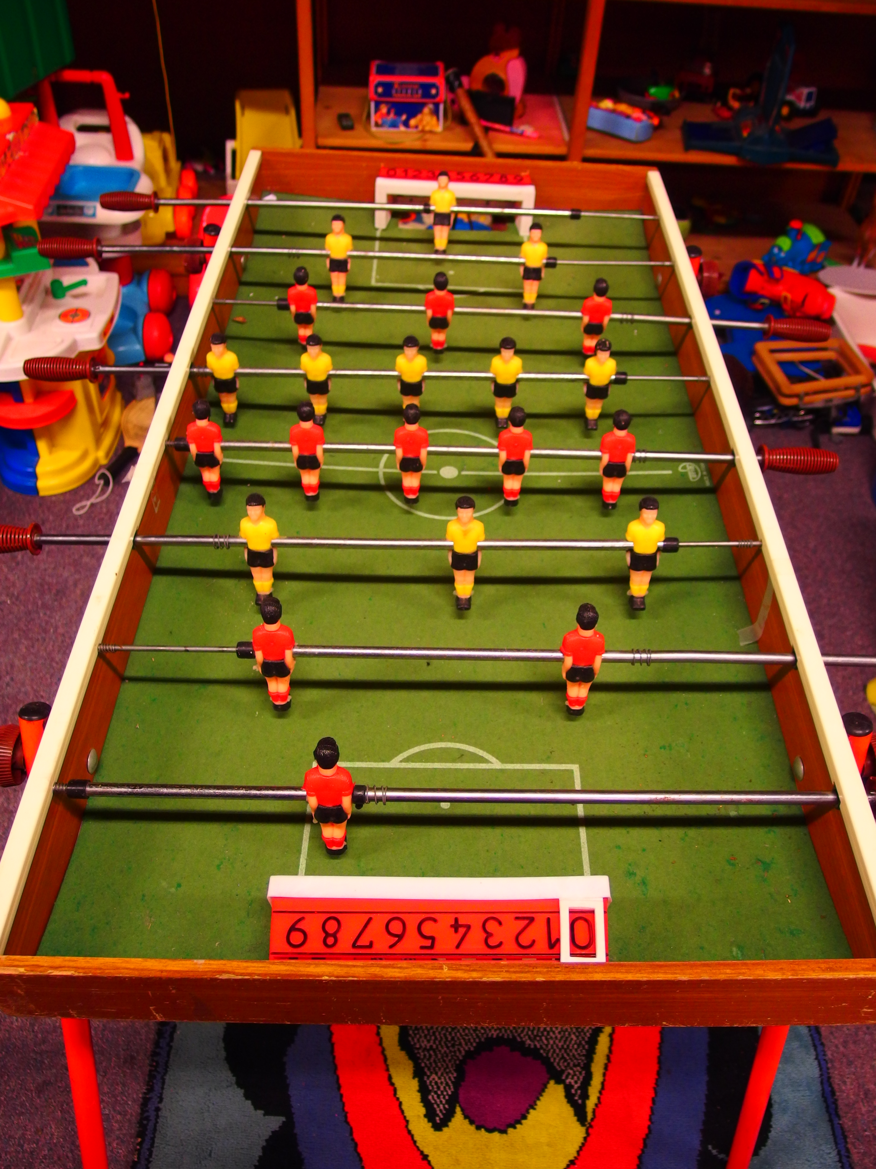 2013-05-05 in Maastricht. Hartelstein is a castle farm in Itteren, Maastricht that at the moment this picture was taken is in use by Emmaus; a catholic charity organisation that provides shelter and work for the homeless and sells "Remnants of Prosperity" i.e. Bric-a-brac in it's locations. Also in Hartelstein.